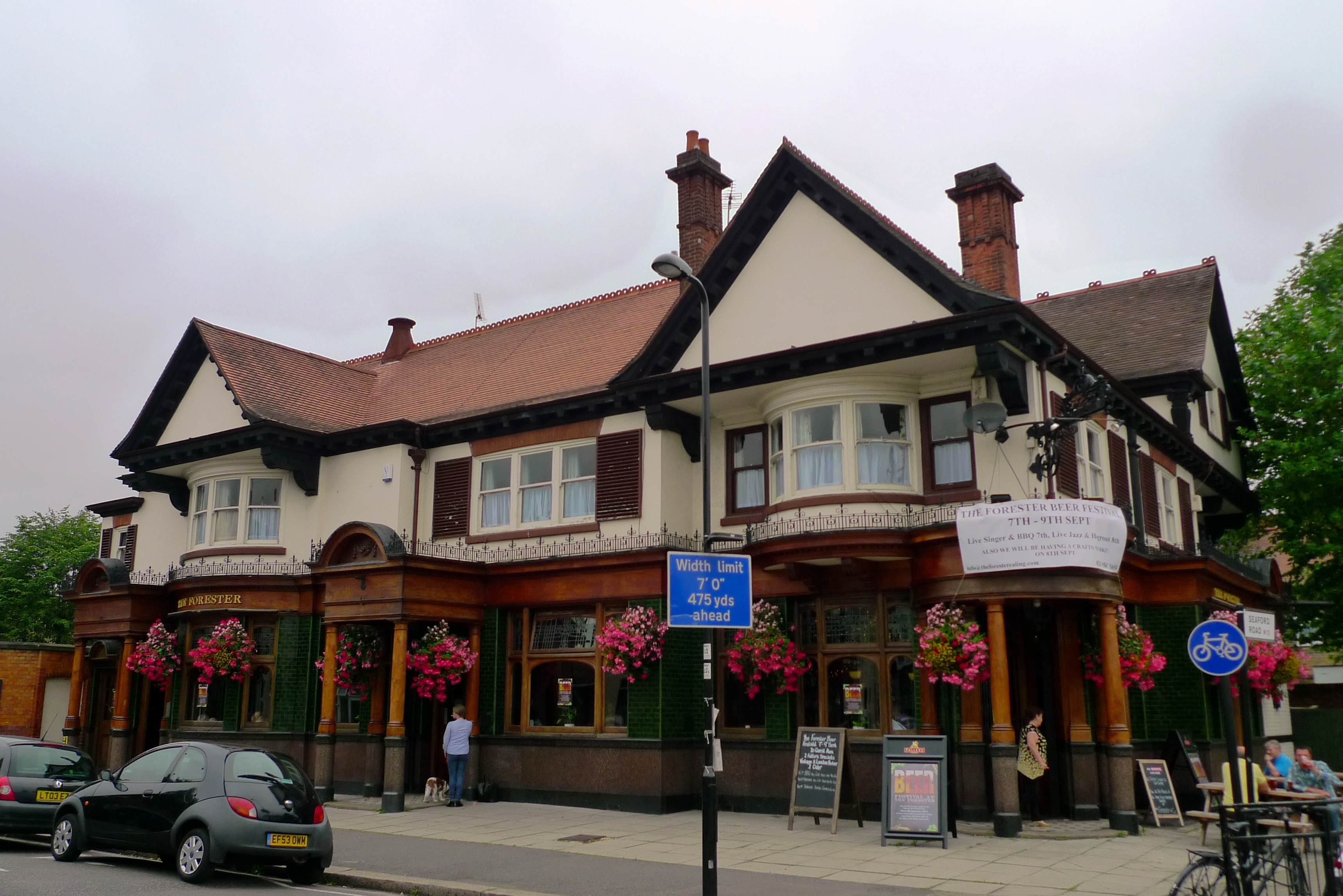 A large, pleasant family-friendly pub. It appears to be run by Fuller's, though it's not on their website. Address: 2 Leighton Road. Owner: Fuller Smith Turner (website); Enterprise Inns/MC Bars (former); Courage (former). Links: Randomness Guide to London Pubs Galore Beer in the Evening Pubs History (history)